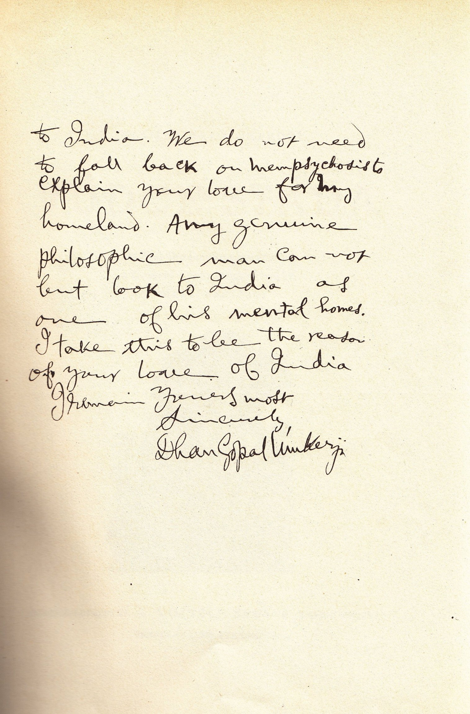 A letter by Dhan Gopal Mukerji written to his Czech translator professor Rudolf Janíček